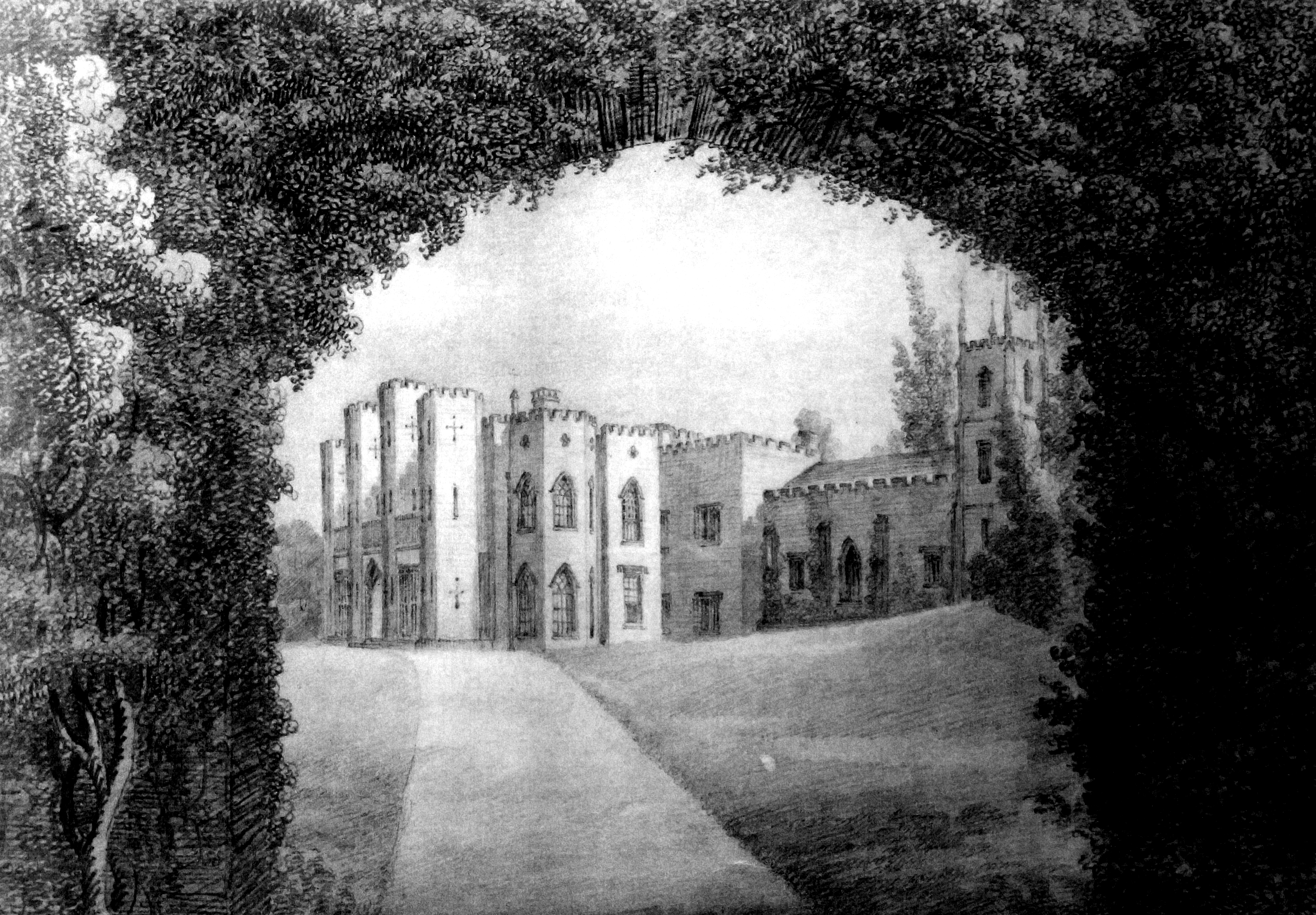 Photograph of drawing of Yeotown House in the parish of Goodleigh, North Devon, demolished pre 1846 (death of its builder Robert Newton Icledon). Viewed from north-west, assuming chapel/church depicted is on usual east-west axis with tower at west end. Collection of Barnstaple Athaneum, North Devon Record Office, Barnstaple, Devon. Location of original drawing unknown. This image converted to monochrome from sepia.